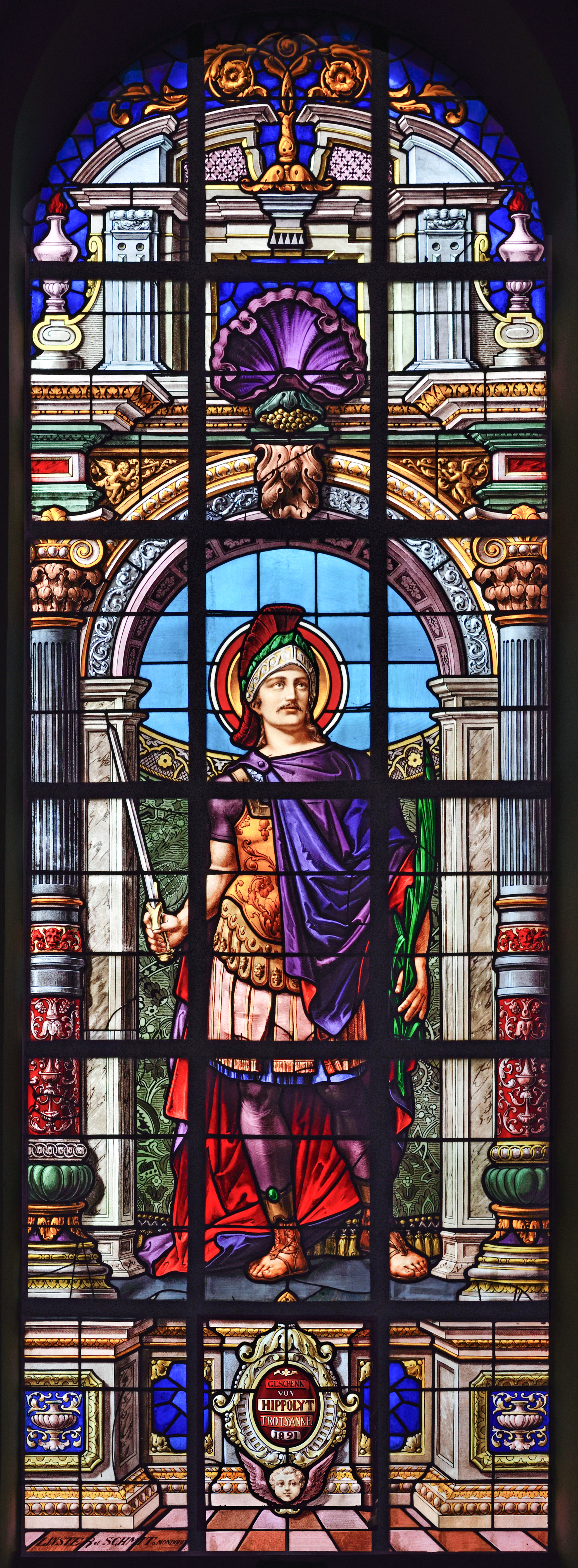 Saint-Michael Church in Mondorf-les-Bains, Luxembourg: Glass window of 1891 showing the donator Hippolyte Trotyanne as a Roman centurion.